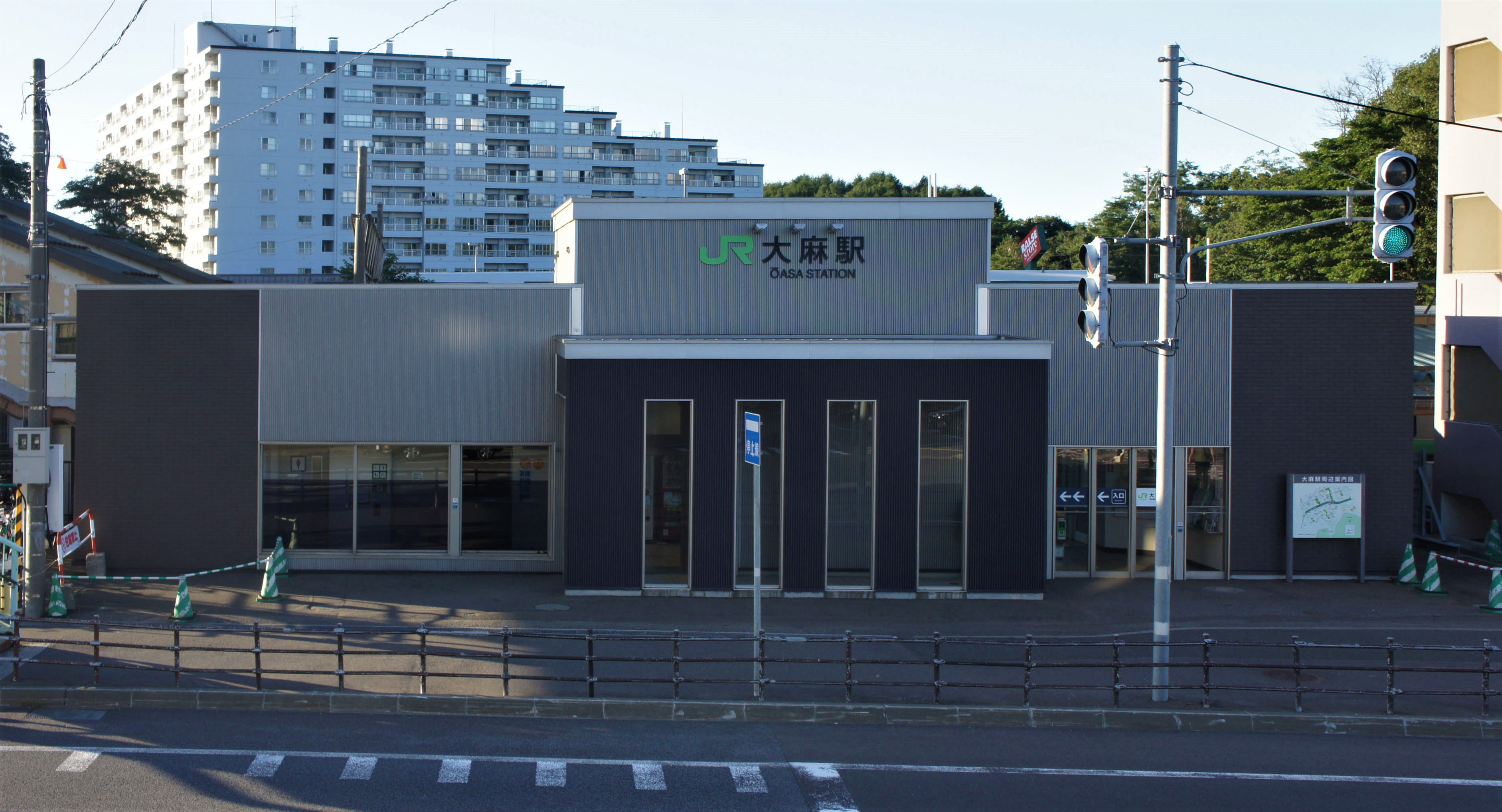 South Exit Station building of JR Hakodate-Main-Line Oasa Station